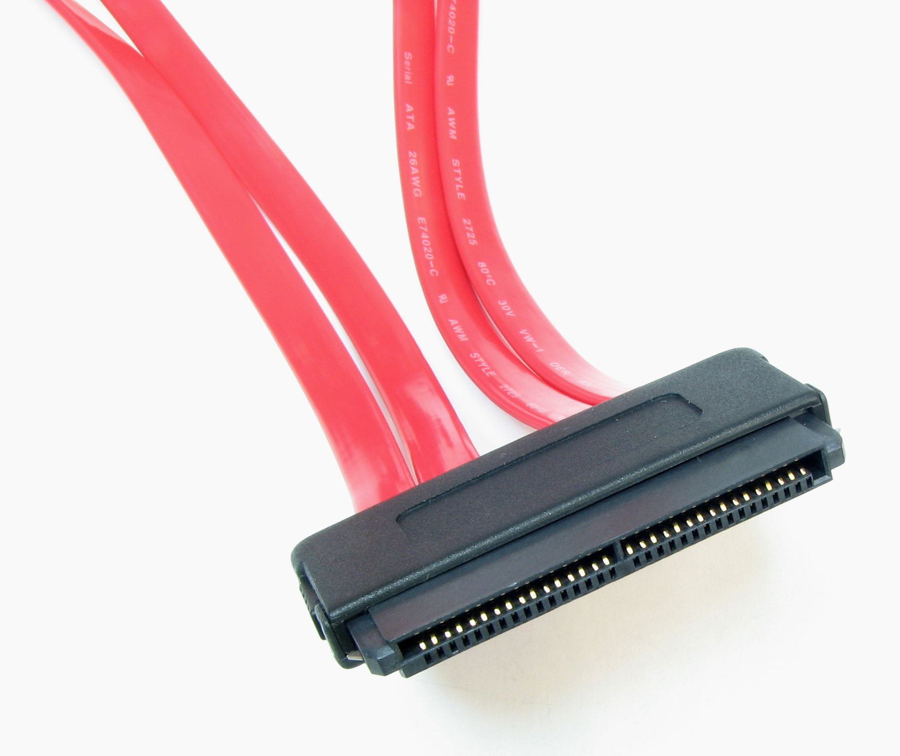 SFF 8484 internal connector. This end is attached to the host adapter (disk controller or RAID controller), while the other end is attached to the hard disk drives with four regular SAS/SATA (Serial Attached SCSI/Serial ATA) connectors.